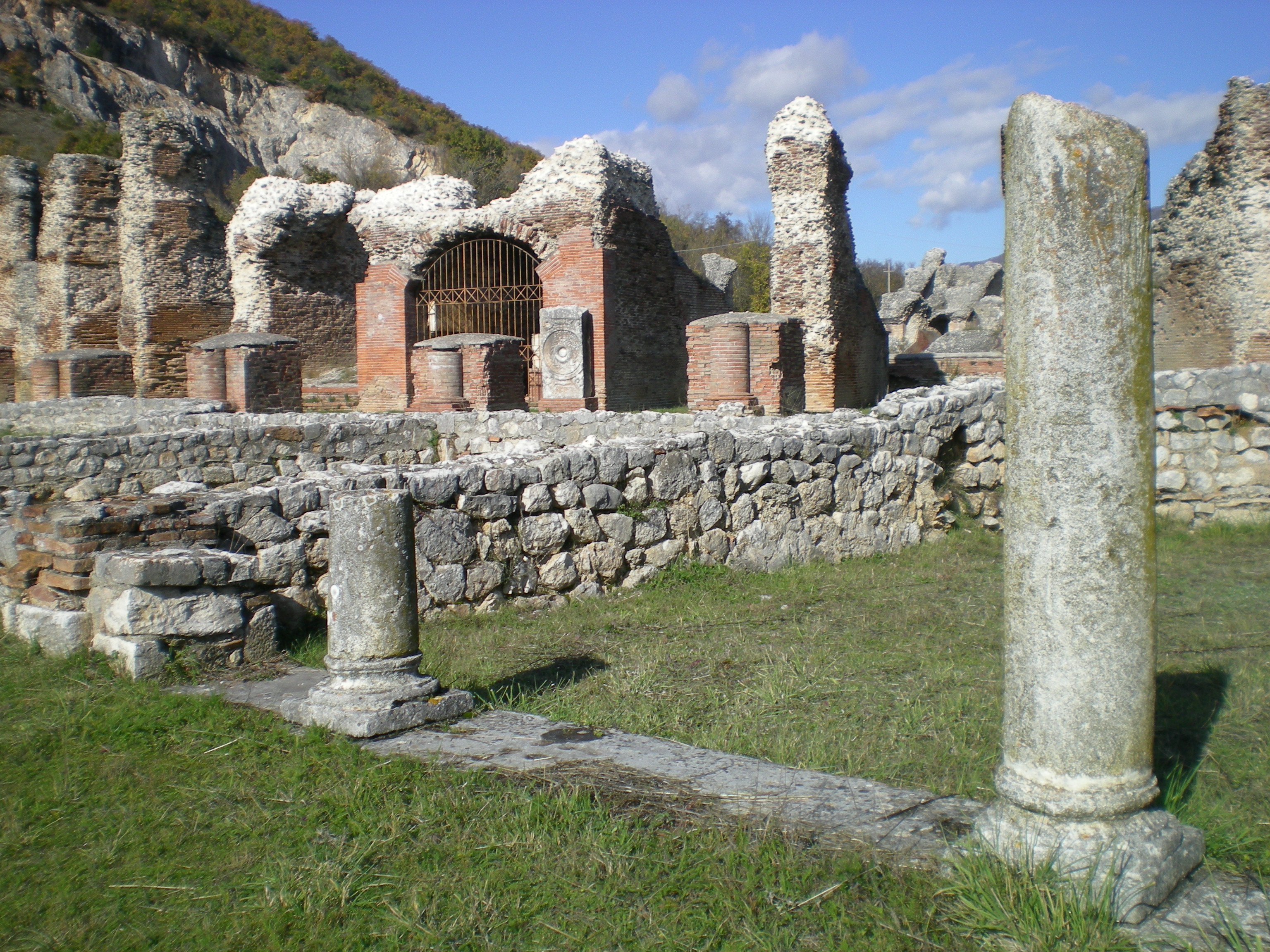 Ruins of Amiternum, near L'Aquila